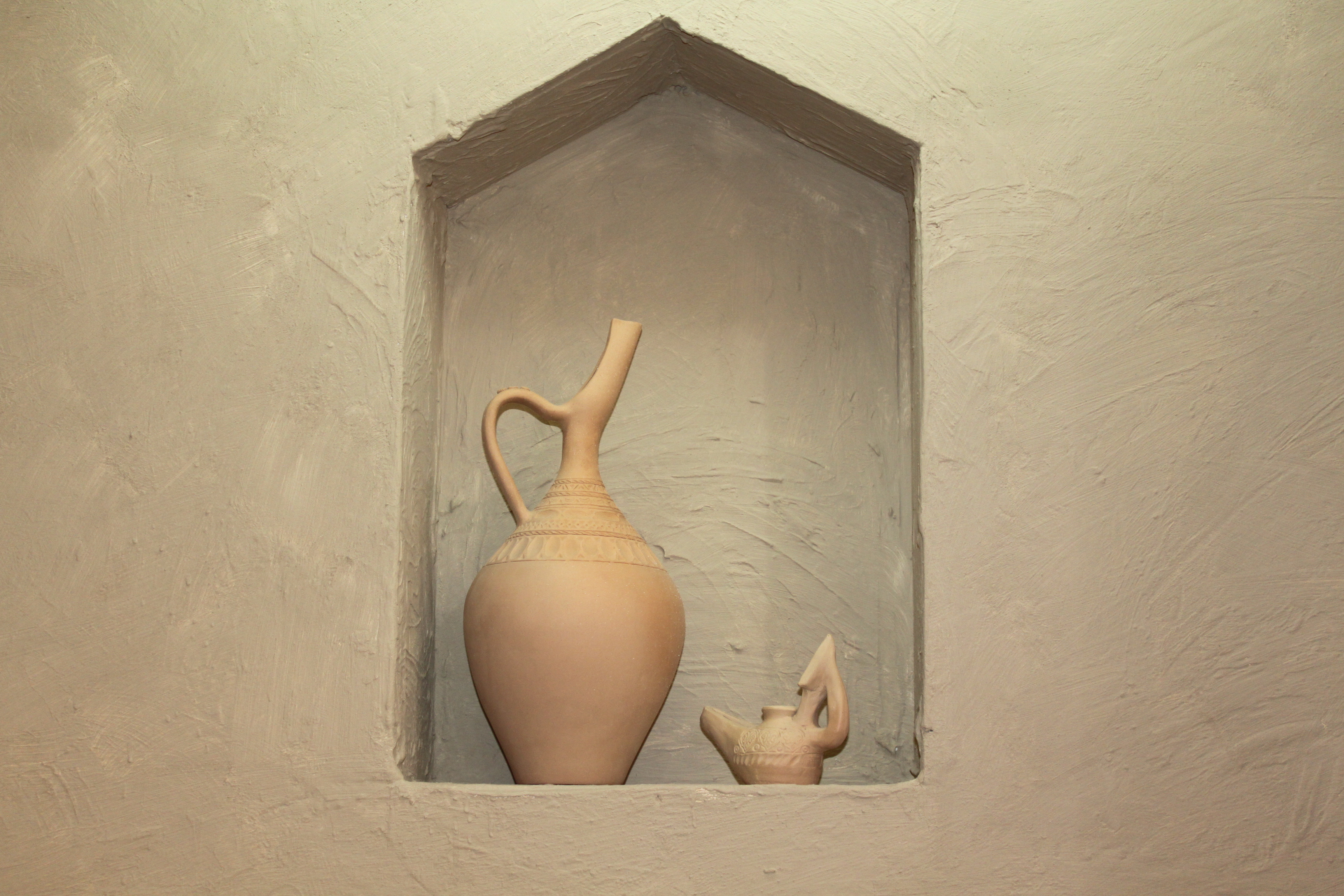 Қыш ыдыстар